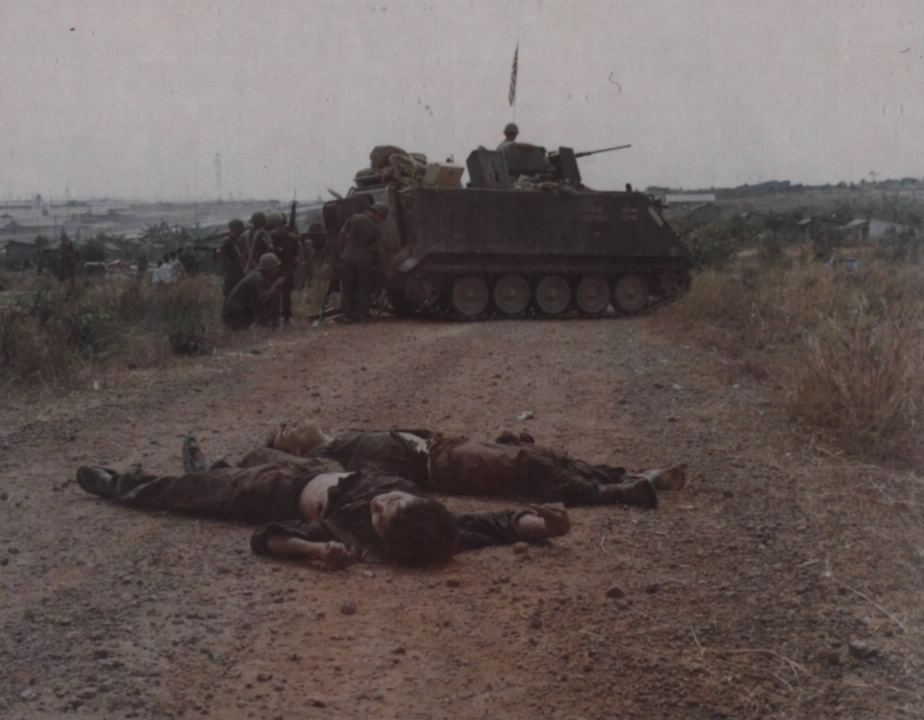 Two enemy soldiers lie dead in foreground after an assault on the II Field Forces complex, Long Binh, South Vietnam. APC from 9th Infantry Division (Mechanized) prepare to move out to sweep the area. Long Binh Post can be seen in background.